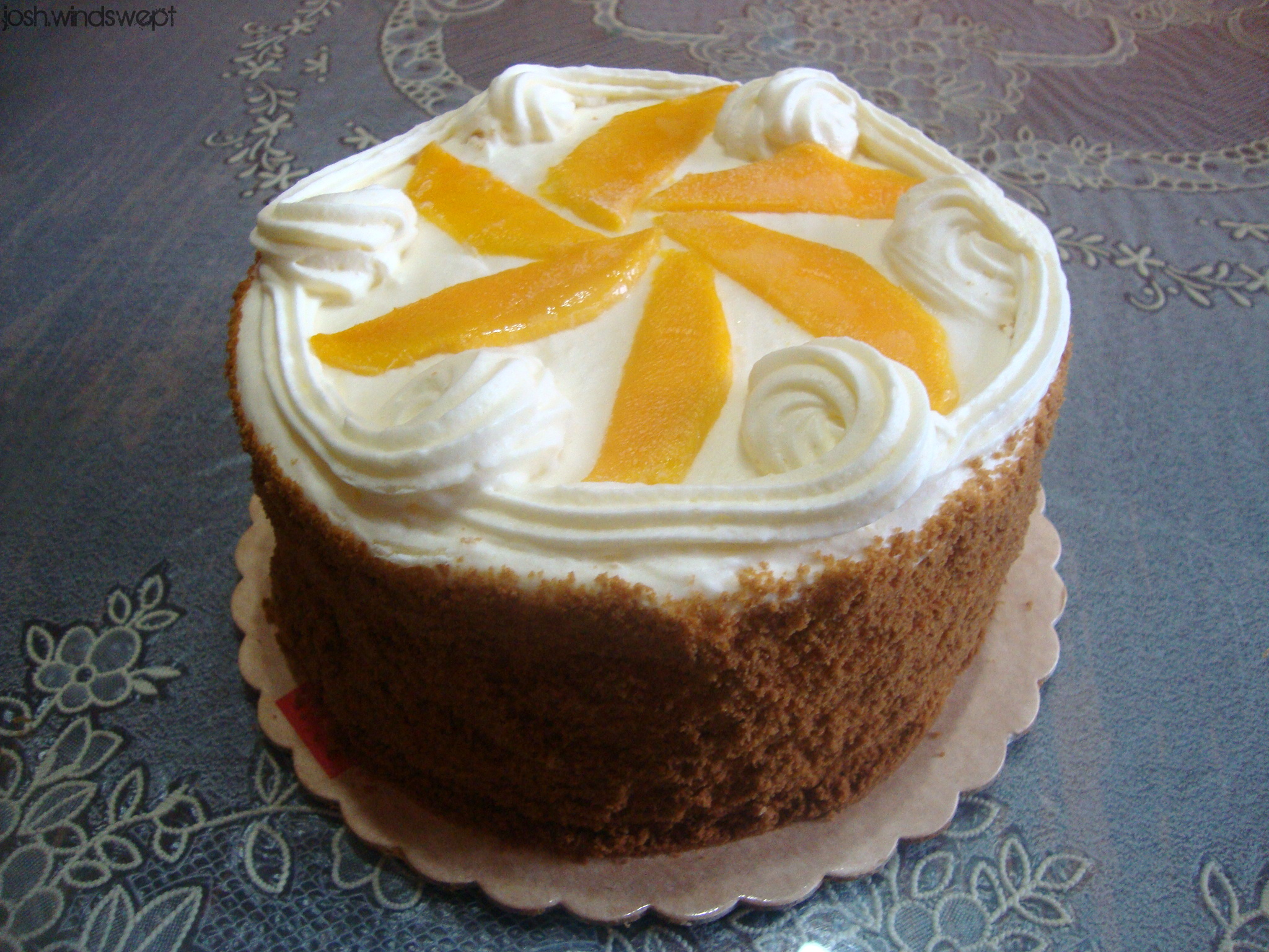 February 28, 2011 59/365 My brother's 16th birthday, and we bought this Mango Passion cake from Red Ribbon. Delicious!